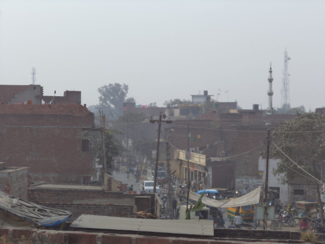 Gauriganj View